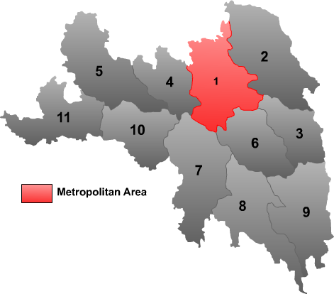 Map of Qamdo prefecture in Tibet autonomous region.